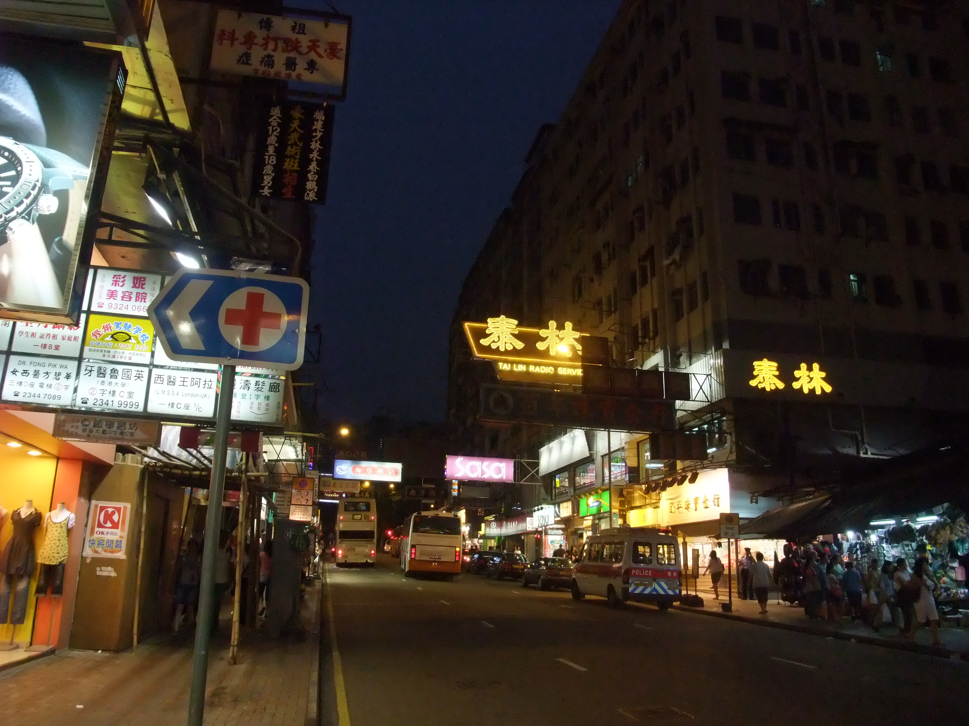 Photo of Tai Lin Store at Mut Wah Street